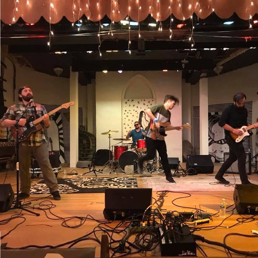 Cicada Radio at the 2017 North Jersey Indie Rock Festival